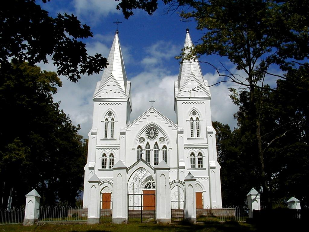 Sacred Heart church in Bikava, Latvia